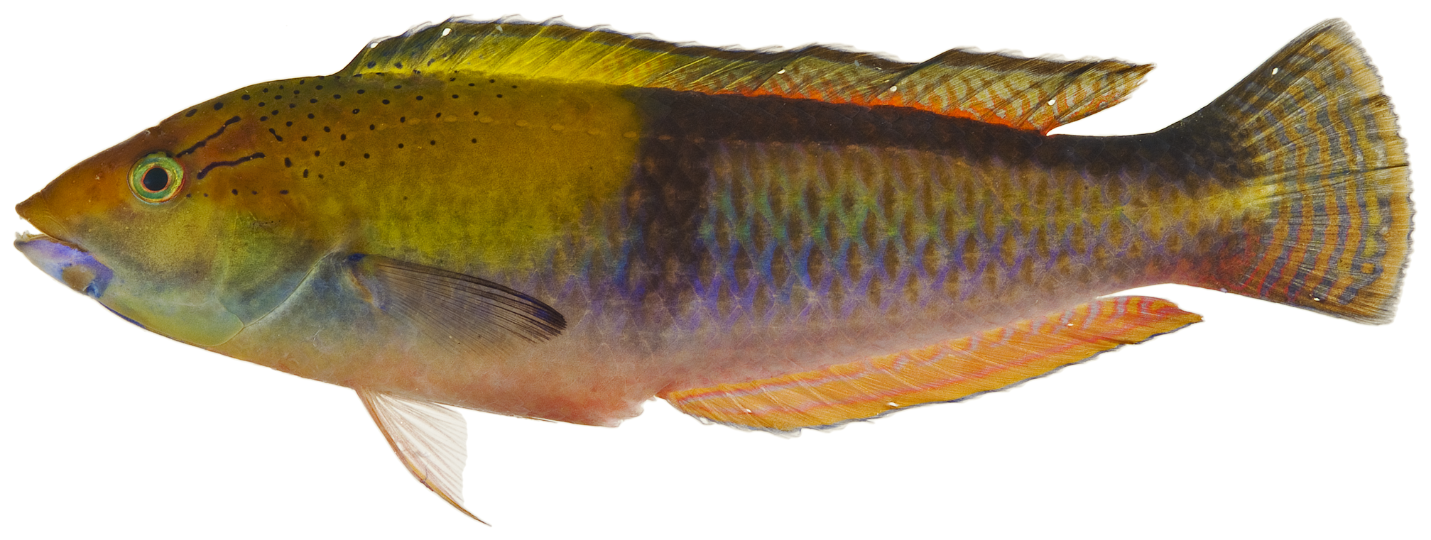 Halichoeres garnoti (Valenciennes, 1839)—yellowhead wrasse, 125.3 mm SL, terminal male color phase. This specimen has completed the transition from the female initial phase into a terminal male and shows the characteristic black bar and dark area over the caudal peduncle. Photo by JT Williams.